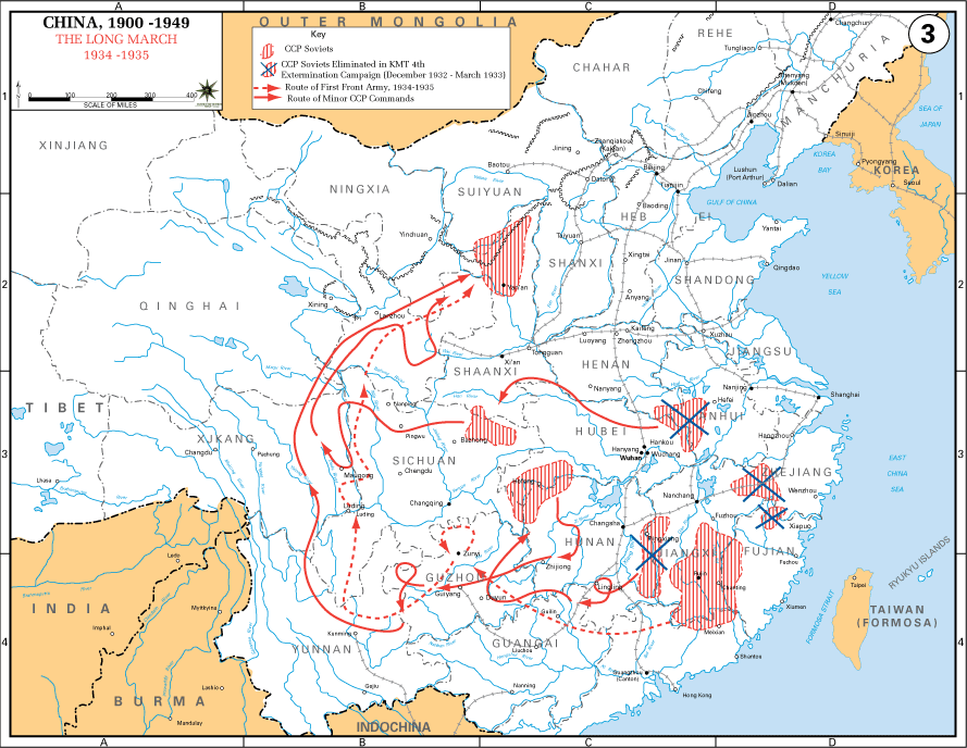 Chinese Civil War